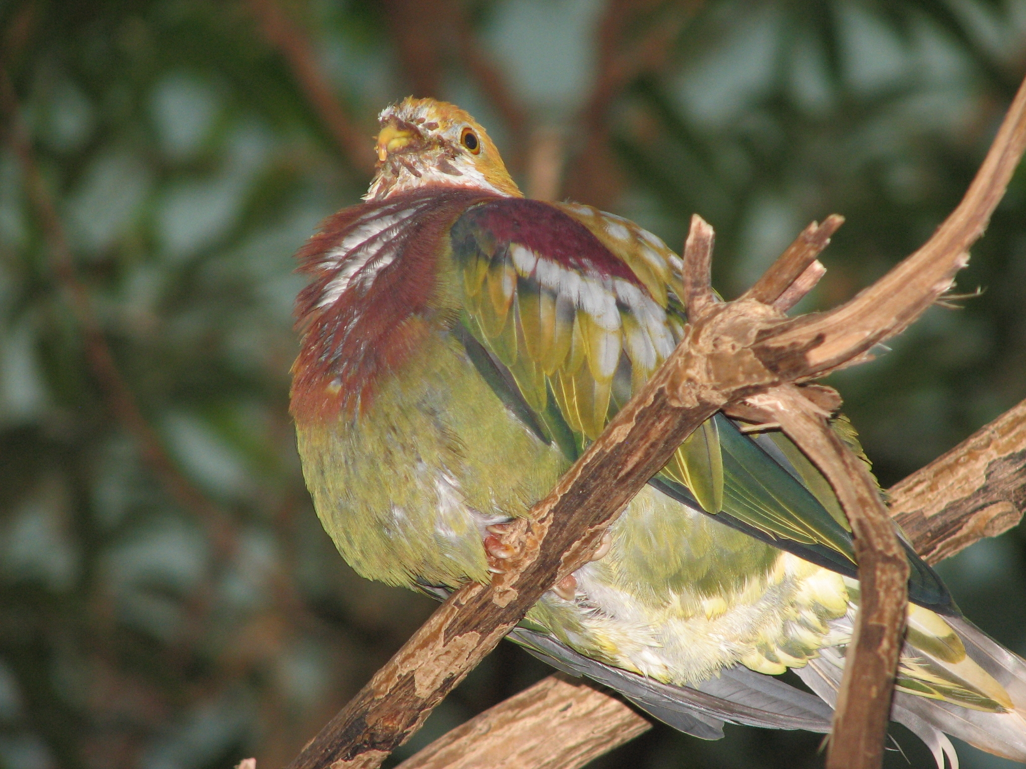 Ornate Fruit-dove